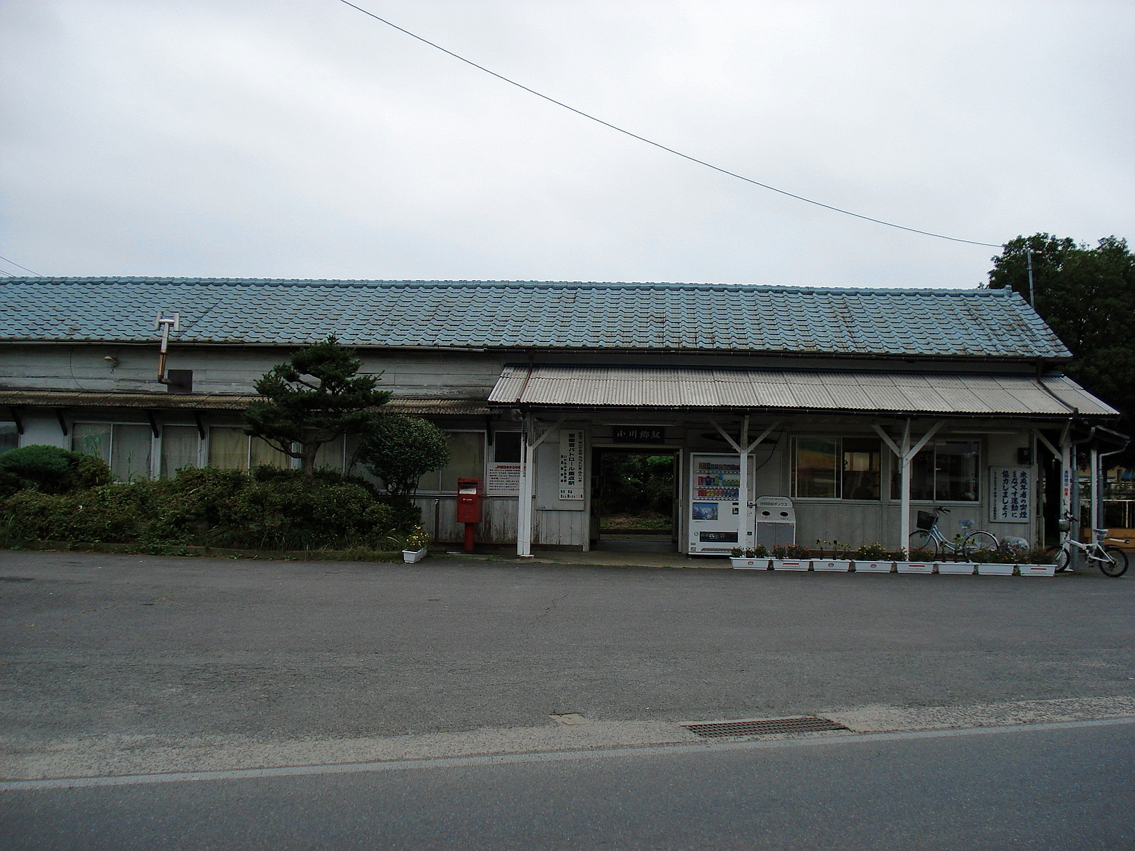 This station, Ogawago station, is on the JR east's East Ban'etsu Line in Iwaki city, Fukushima Prefecture, Japan.